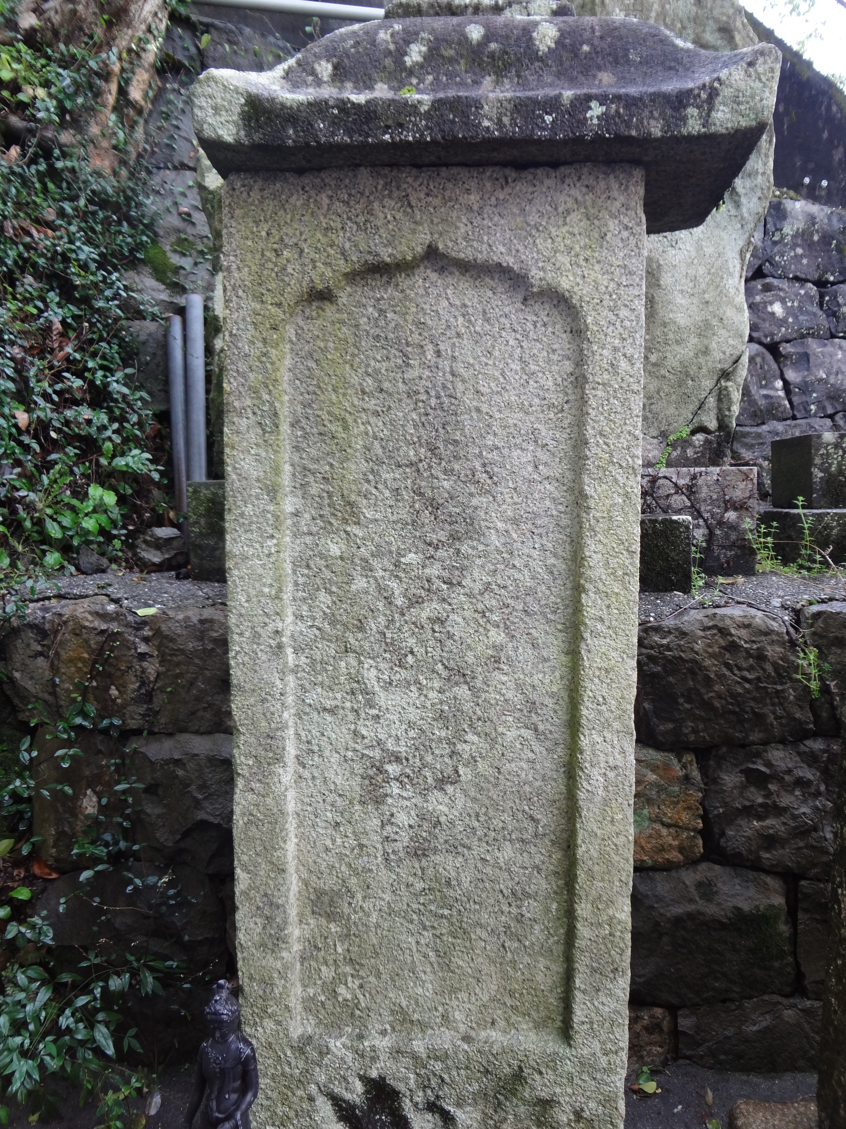 The tomb of INUI(ITAGAKI) MASANAO ( -1688). The second son of INUI(ITAGAKI) MASAYUKI. Grandchild of NAGAHARA KATSUAKI(YAMAUCHI GYOBU).